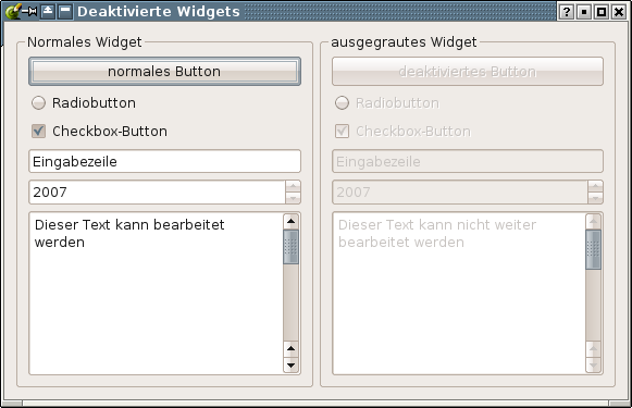 Example of disabled widgets in Qt